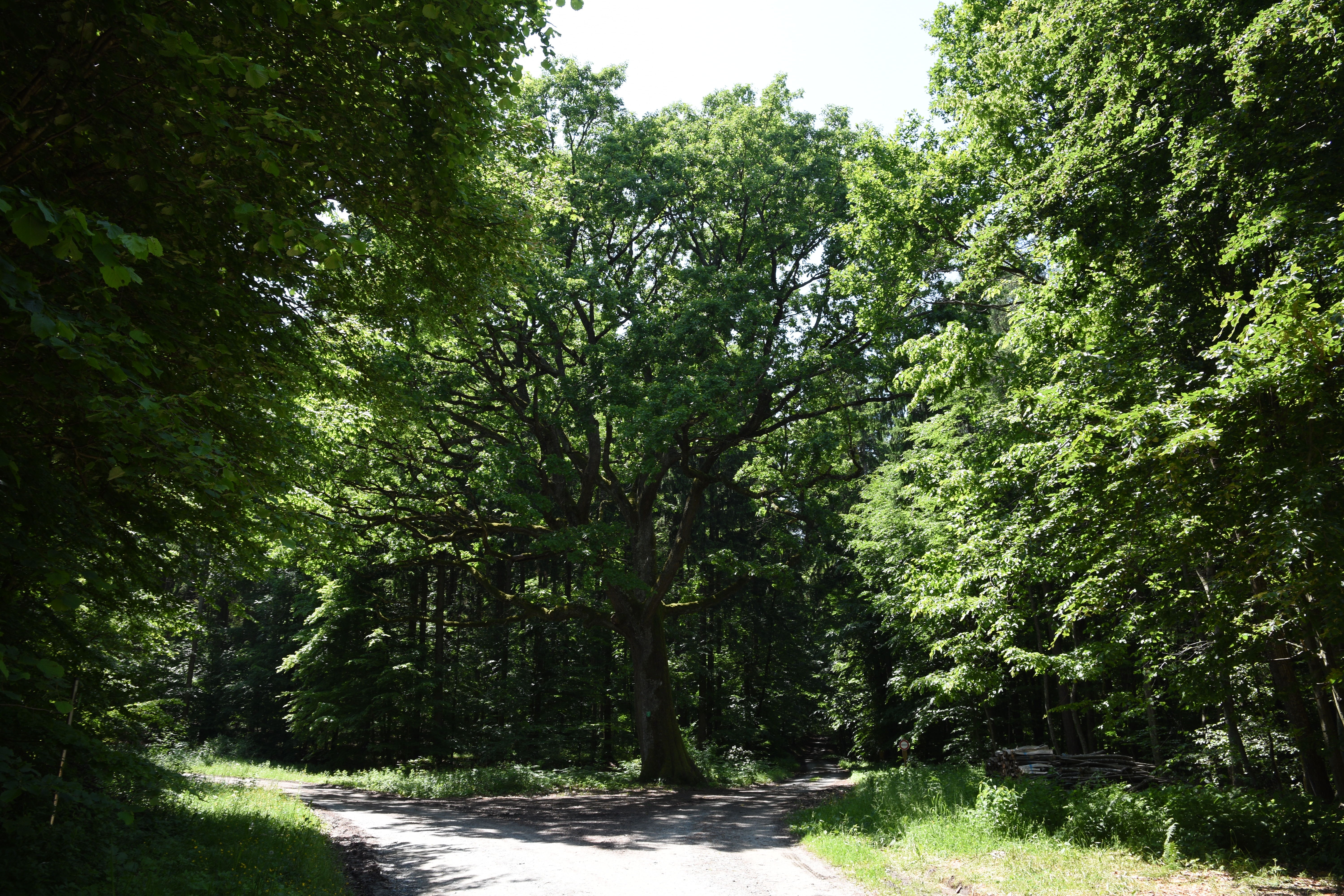 Oak Neustift bei Güssing